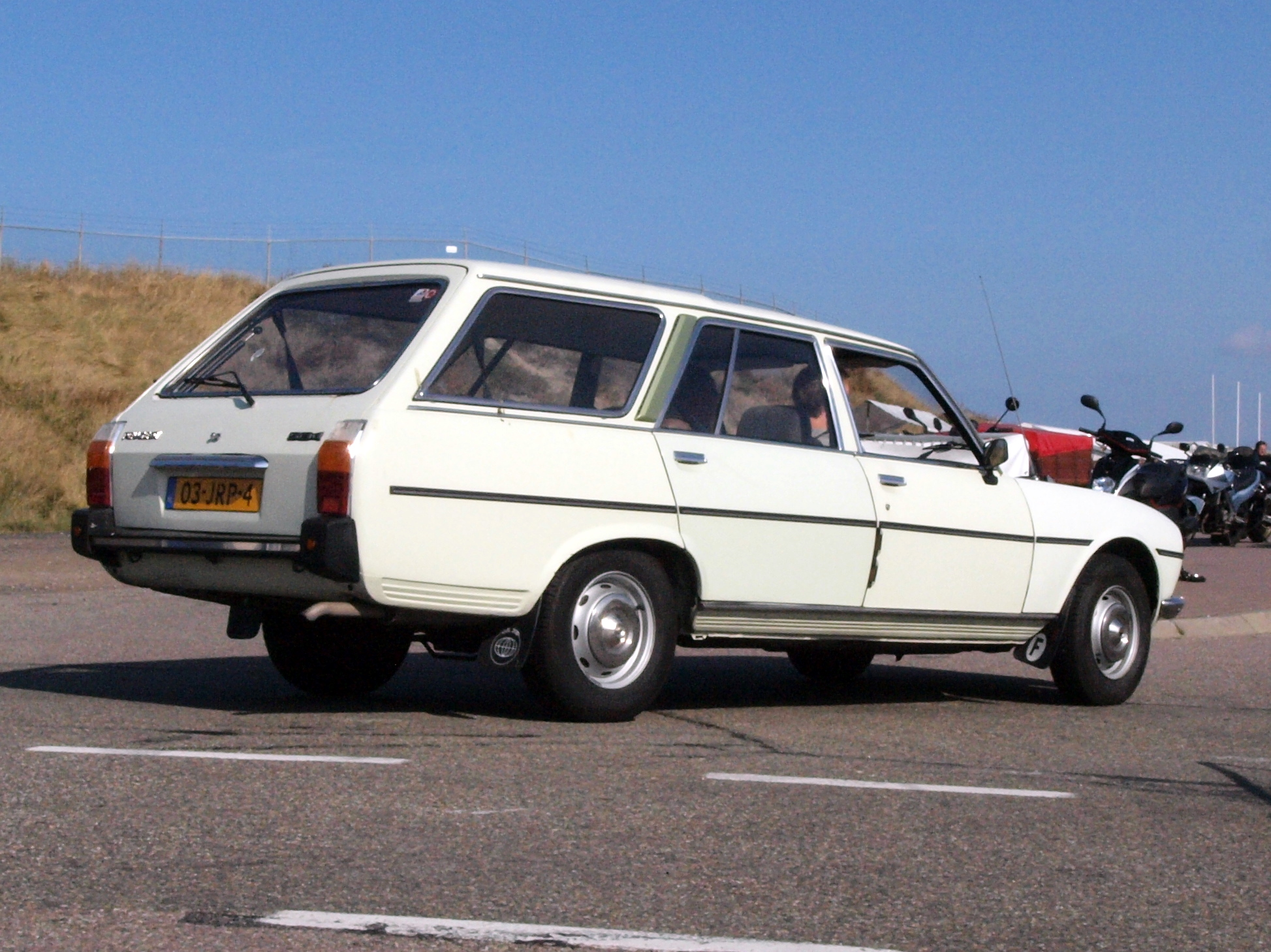 Photographed at the Nationaal Oldtimer Festival Zandvoort 2009, The Netherlands. OLYMPUS DIGITAL CAMERA 1982 Peugeot 504 Break